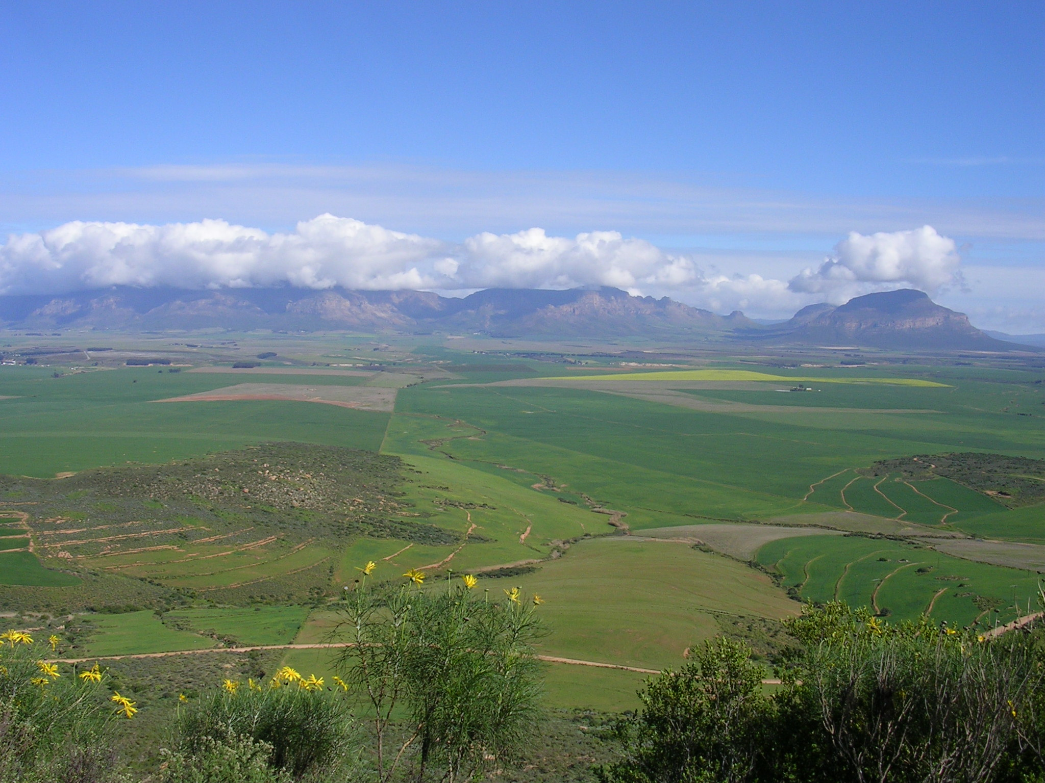 Northern Cape region in South Africa.